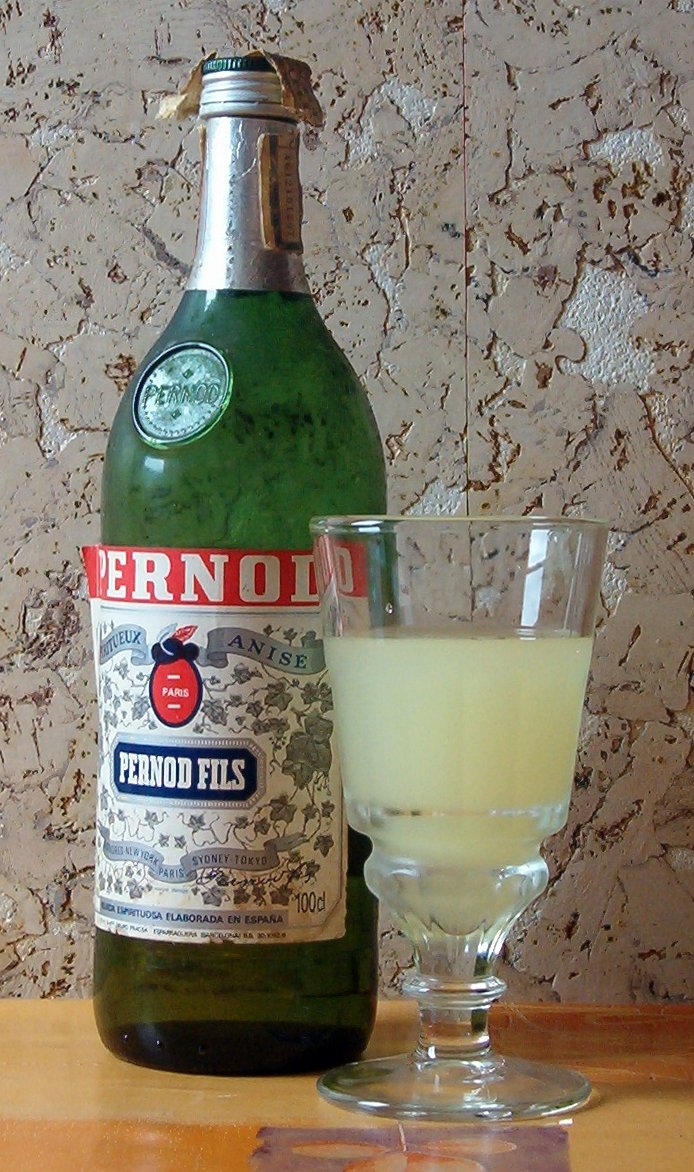 A bottle and a diluted glass of Pernod anise spirit from the 1970's, produced in Spain.